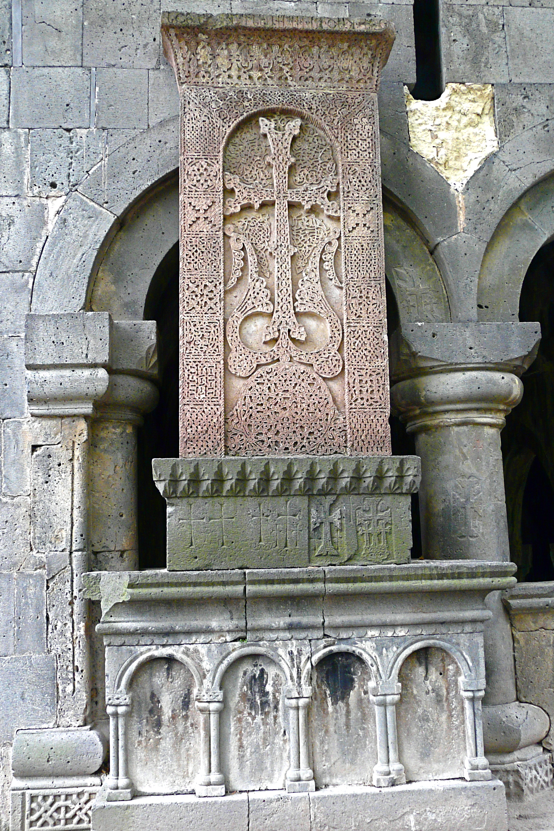 Khachkar in Sanahin, Armenia. 2/33.13.2